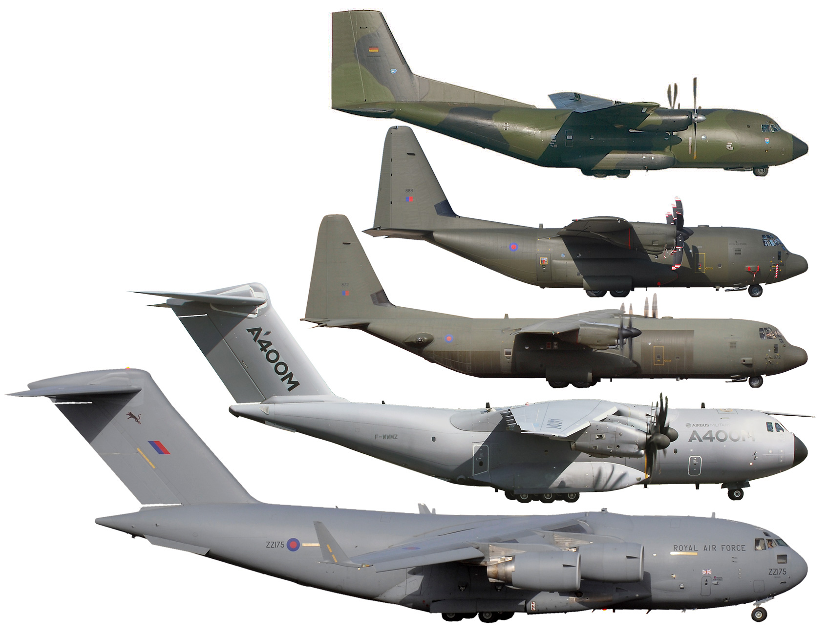 Size comparison of military transport aircraft. Top down: Transall C-160; Lockheed Martin C-130J Super Hercules, C-130J-30 Super Hercules (extended), Airbus A400M Atlas, Boeing C-17 Globemaster III. Please note that the image is composed of individual photographs and there are certain changes in the perspective. This should still give a rough impression of the proportions.